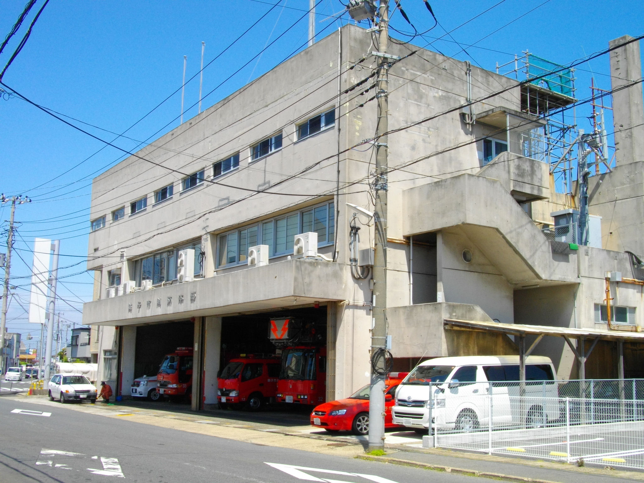 Choshi City Fire Department